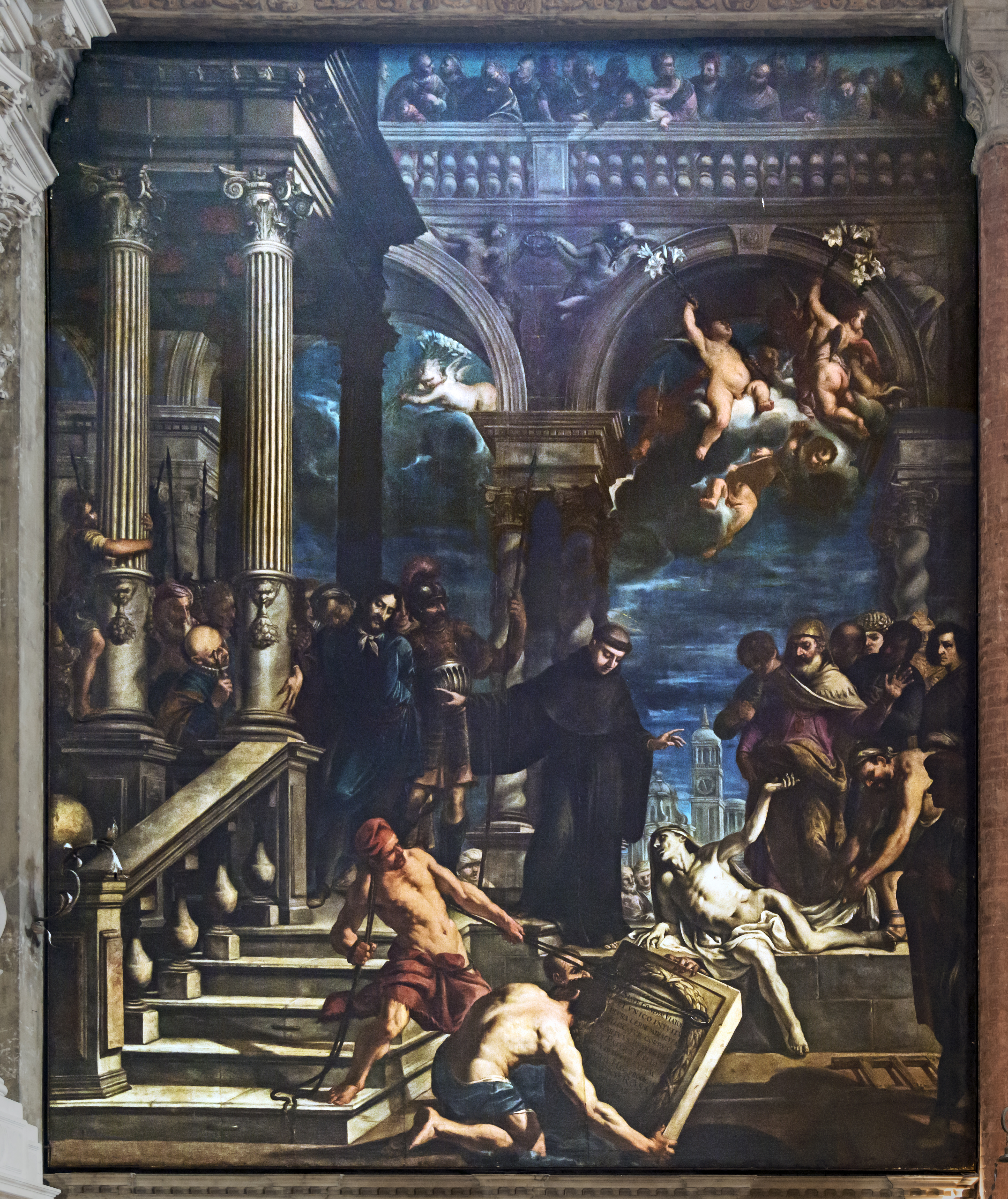 The right side of the nave of the Santa Maria Gloriosa dei Frari. On the right wall of the altar dedicated to him (together with the interior-façade) a table of Francesco Rosa representing the Miracle of St. Anthony who raises the dead. Oil on canvas 1670.